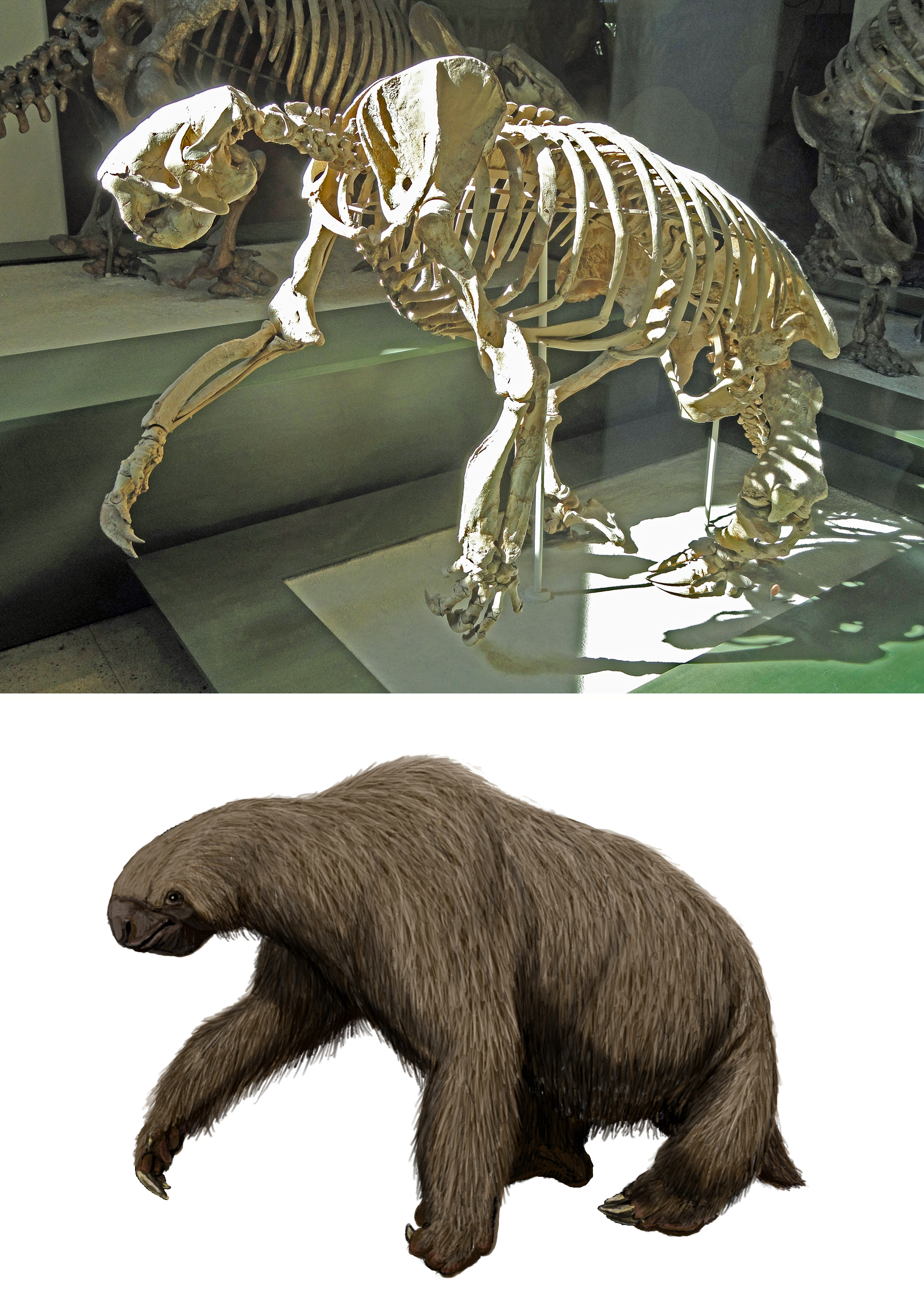 American Museum of Natural History exhibit of a skeleton of Megalonyx wheatleyi, a North American ground sloth, coupled with a restoration.